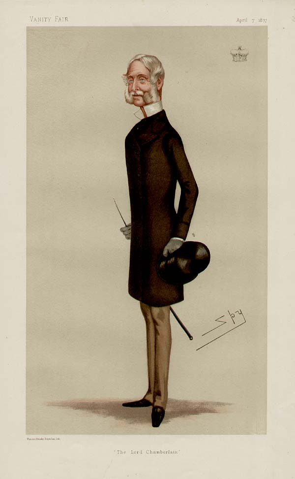 Caricature of Francis Seymour, 5th Marquess of Hertford. Caption read "The Lord Chamberlain".